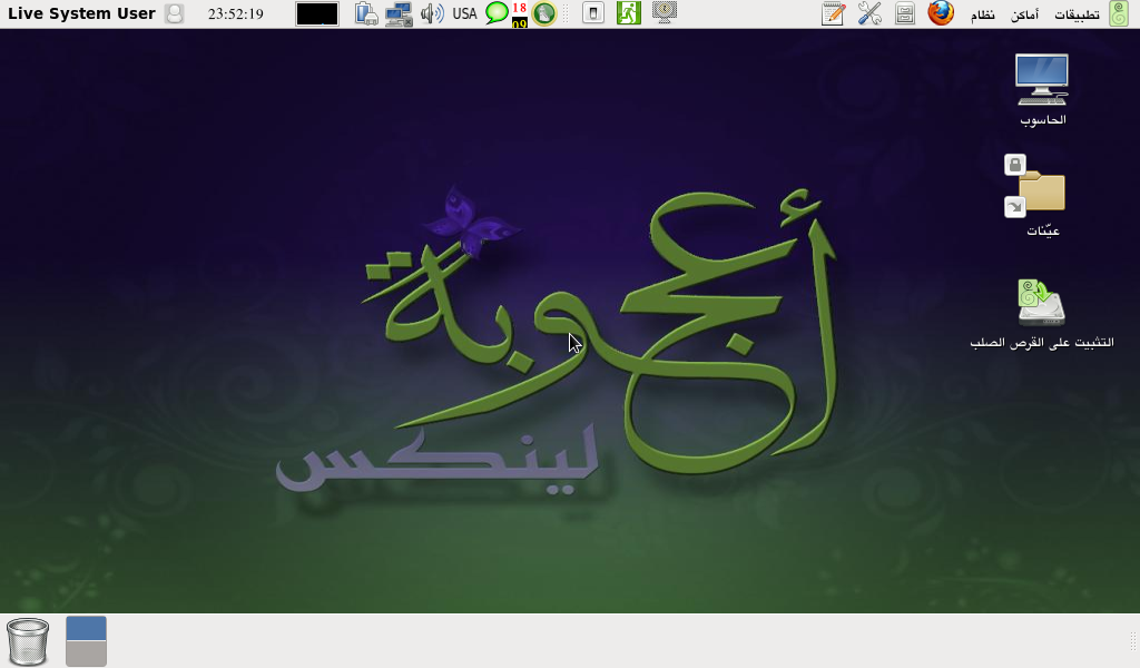 Ojuba 4 Riyadh is based on Fedora 13 and the default GUI is GNOME. Ojuba Linux is an Arabic Fedora-based distribution pre-installed with Arabic/Islamic packages like hijra and minbar, and many patched packages to give better Arabic support (like GNOME Terminal). Ojuba Linux also comes with some third-party packages implementing multimedia support for proprietary formats and proprietary drivers. Ojuba 4 is a free, (mostly) open source operating system whose main focus is to provide the best Arabic support. Created a bootable USB drive using UNetbootin and ojuba-4-live-i686.iso live CD.